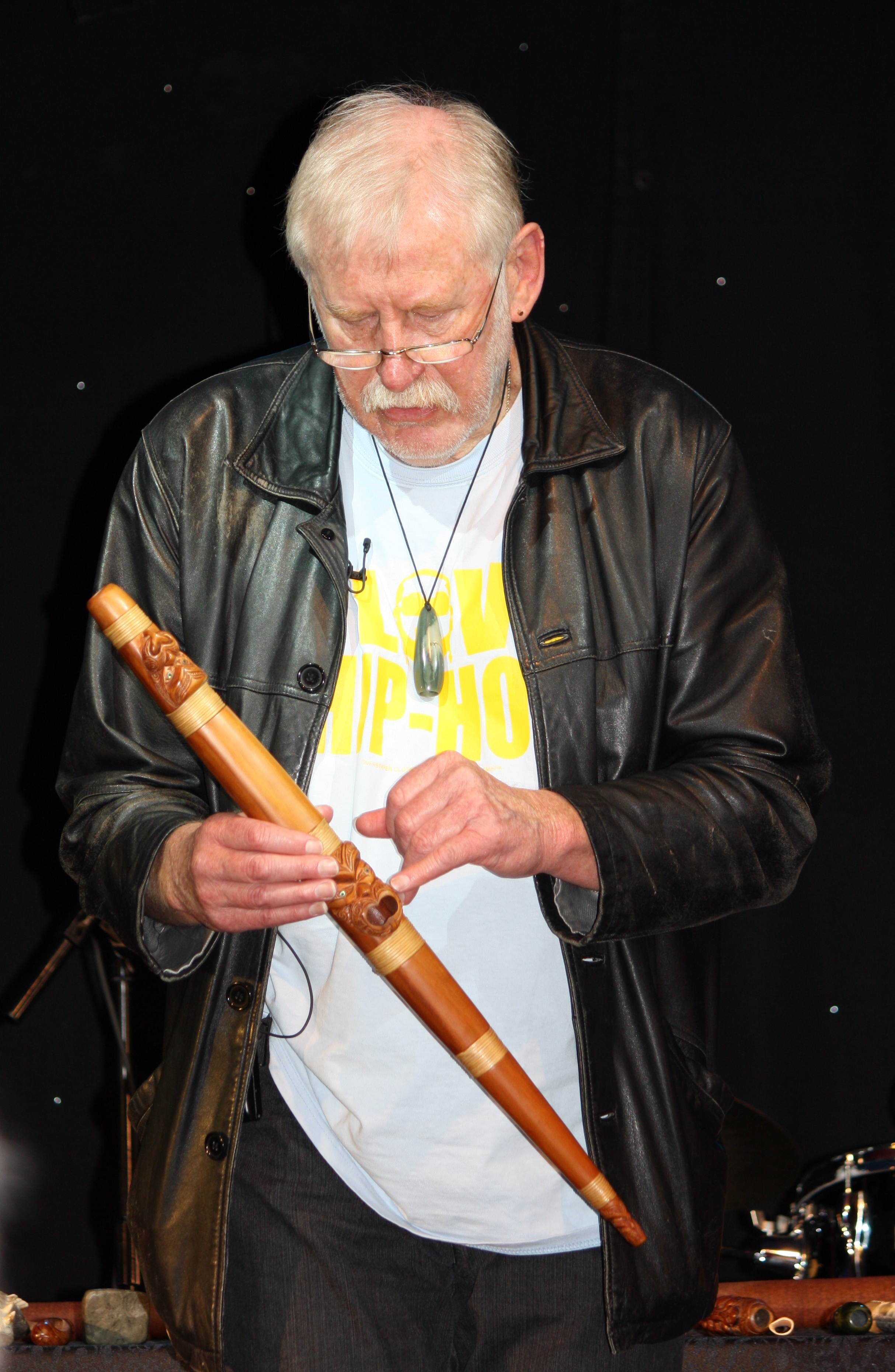 Richard Nunns in 2011, displaying a pūtōrino (dual flute/trumpet), a traditional Māori musical instrument.